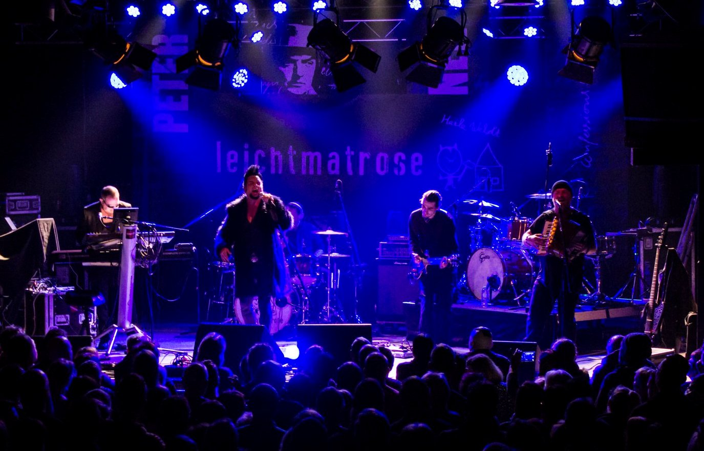 German electropop band Leichtmatrose as support for Peter Heppner during the Confessions & Doubts Tour at Alte Spinnerei, Glauchau (Germany).